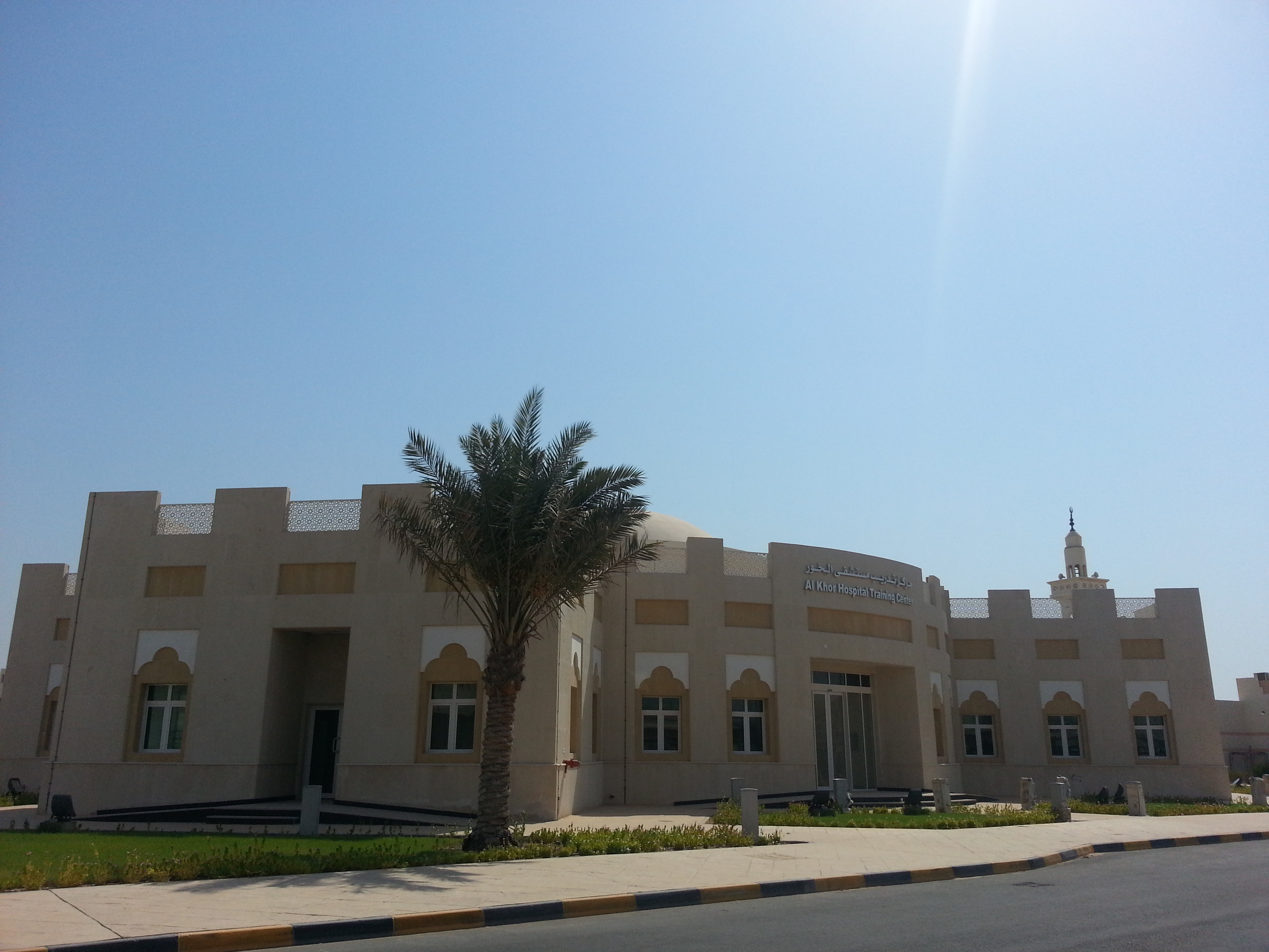 hamad hospital. training centre. al khor.qatar